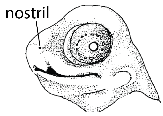 Standard Event System character depiction